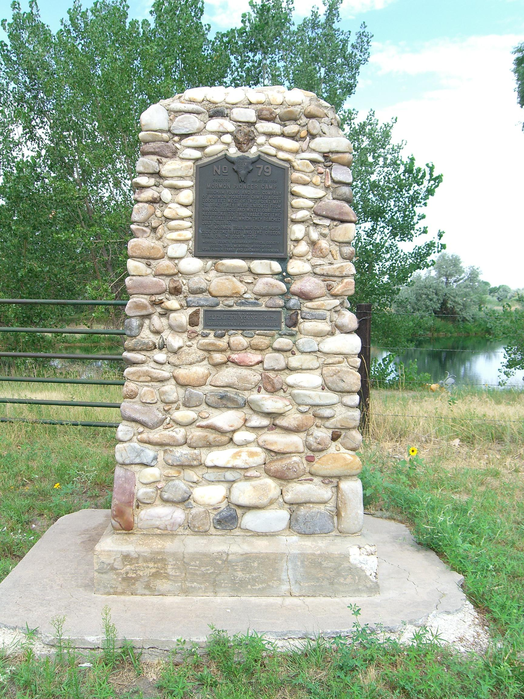 Mormon Trail marker (number 79), found in Bridgeport, Morrill County, Nebraska. The text on the two plaques read as follows: (Upper plaque) № 79 ERECTED AUGUST 22, 1938 MORMON PIONEER CAMP BRIGHAM YOUNG AND HIS COMPANY OF MORMON PIONEERS CAMPED ABOUT 1,000 FEET WEST OF THIS POINT MAY 24, 1847. THEY WERE ENROUTE FROM NAUVOO, ILLINOIS AND WINTER QUARTERS, NEBRASKA TO THE VALLEY OF THE GREAT SALT LAKE, WHICH THEY REACHED JULY 24, 1847 THE MORMON TRAIL WAS ON THE NORTH SIDE OF THE RIVER AND THE OREGON TRAIL ON THE SOUTH SIDE. MORRILL COUNTY, NEBRASKA, HISTORICAL SOCIETY OREGON TRAIL MEMORIAL ASSOCIATION UTAH PIONEER TRAILS AND LANDMARKS ASSOCIATION (Lower plaque) DEDICATED IN MEMORY OF ELIZABETH YOUNG SMITH BY ALFRED H. SMITH & FRANCES SMITH HARDEN